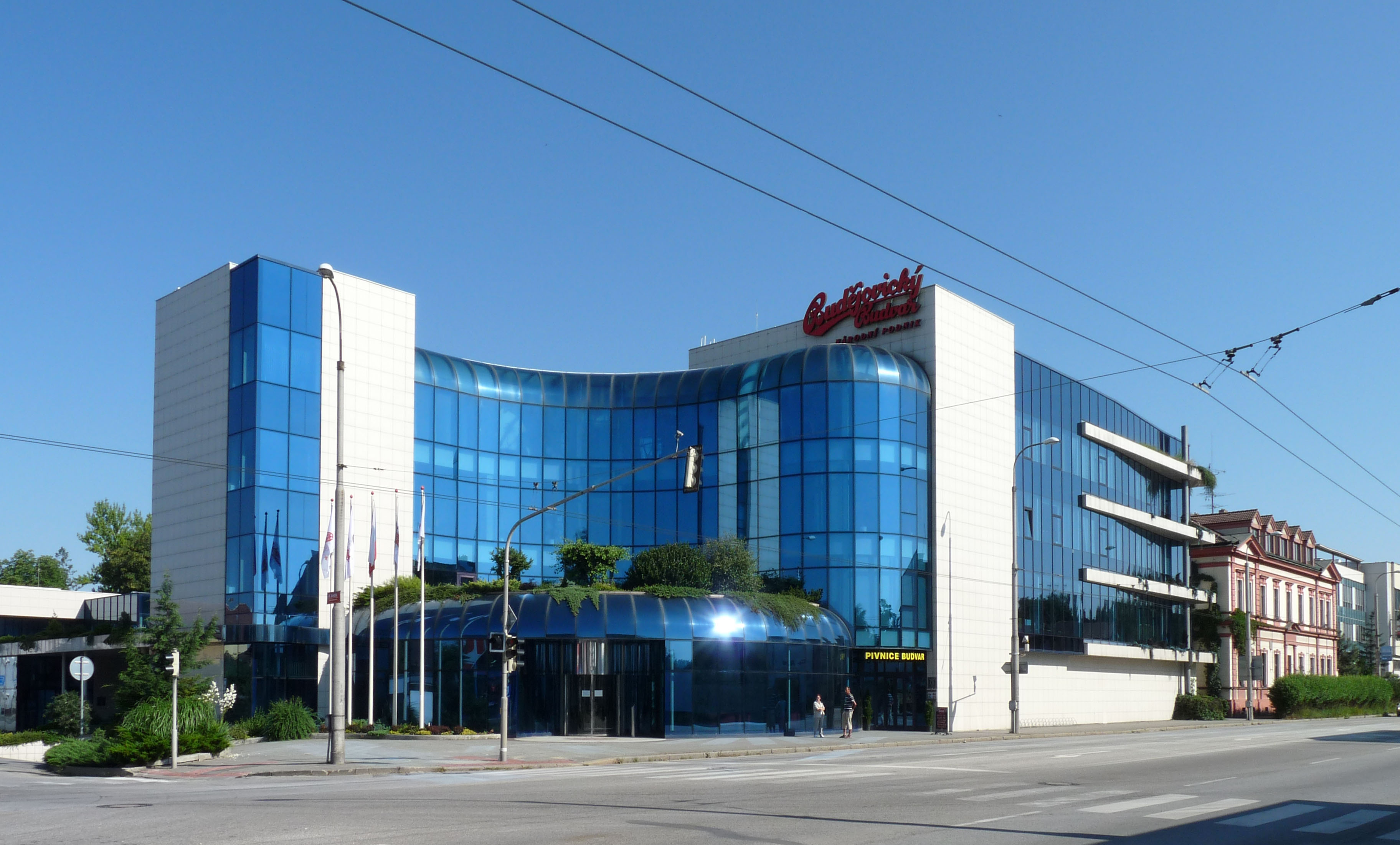 Budweiser Budvar brewery in Kněžské Dvory, part of České Budějovice, Czech Republic.